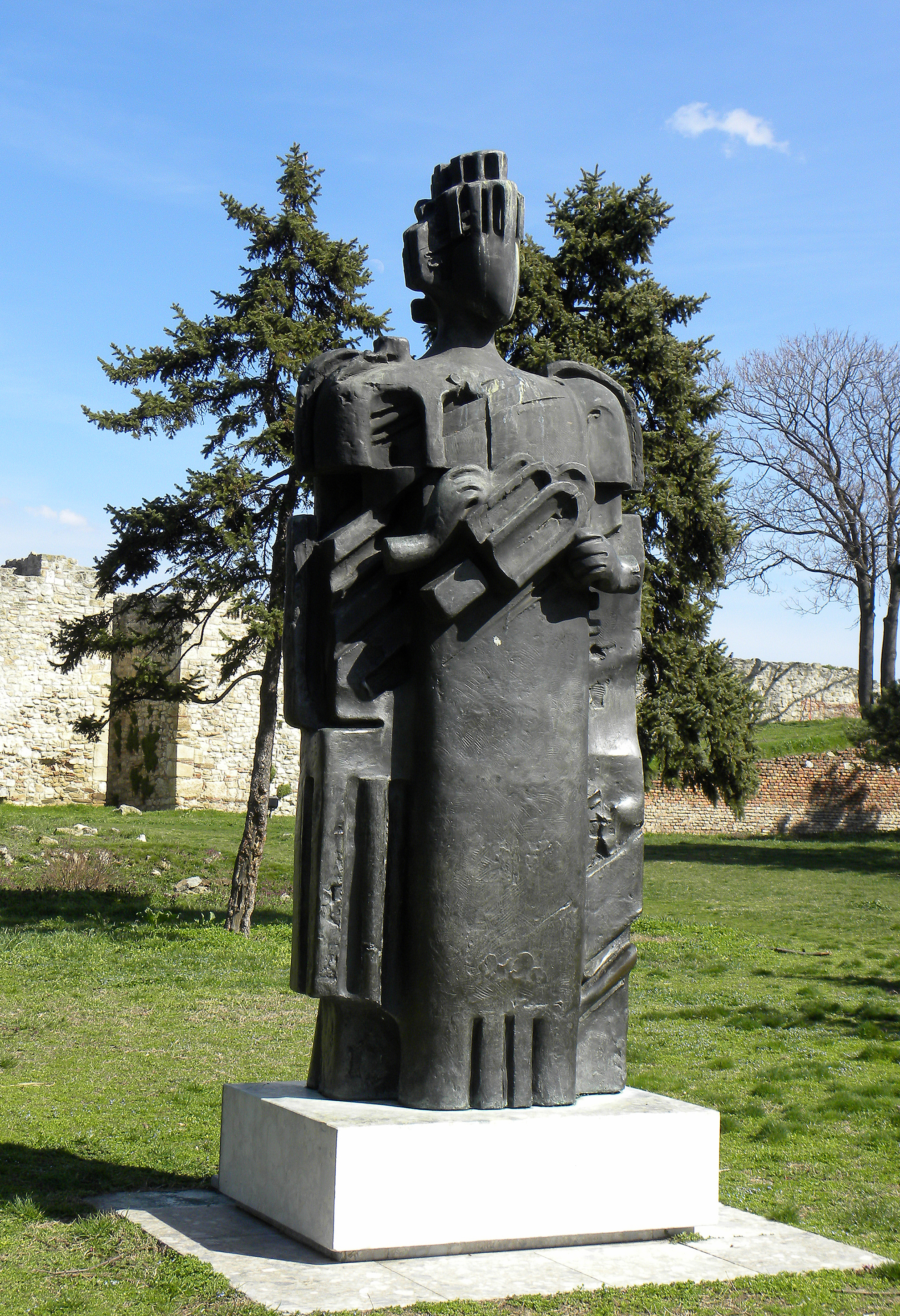 Belgrade Fortress consists of the old citadel (Upper and Lower Town) and Kalemegdan Park (Large and Little Kalemegdan) on the confluence of the River Sava and Danube, in an urban area of modern Belgrade, the capital of Serbia. It is located in Belgrade's municipality of Stari Grad. Belgrade Fortress was declared a Monument of Culture of Exceptional Importance in 1979, and is protected by the Republic of Serbia. It is the most visited tourist attraction in Belgrade, with Skadarlija being the second. Since the admission is free, it is estimated that the total number of visitors (foreign, domestic, citizens of Belgrade) is over 2 million yearly.